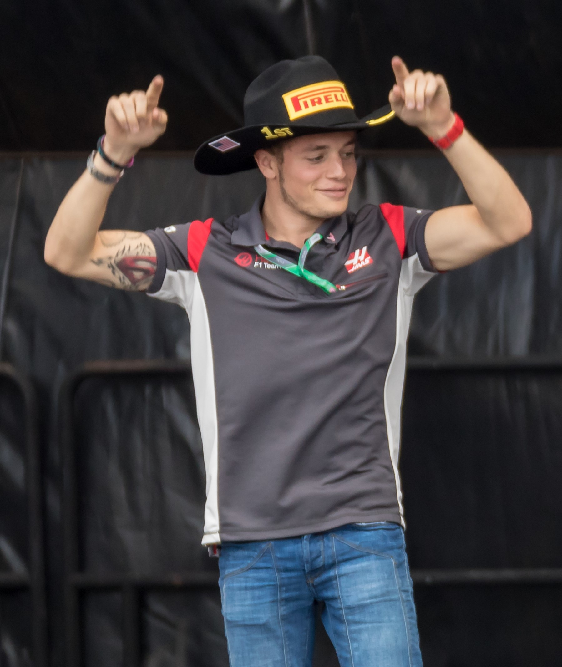 2017 United States Grand Prix.